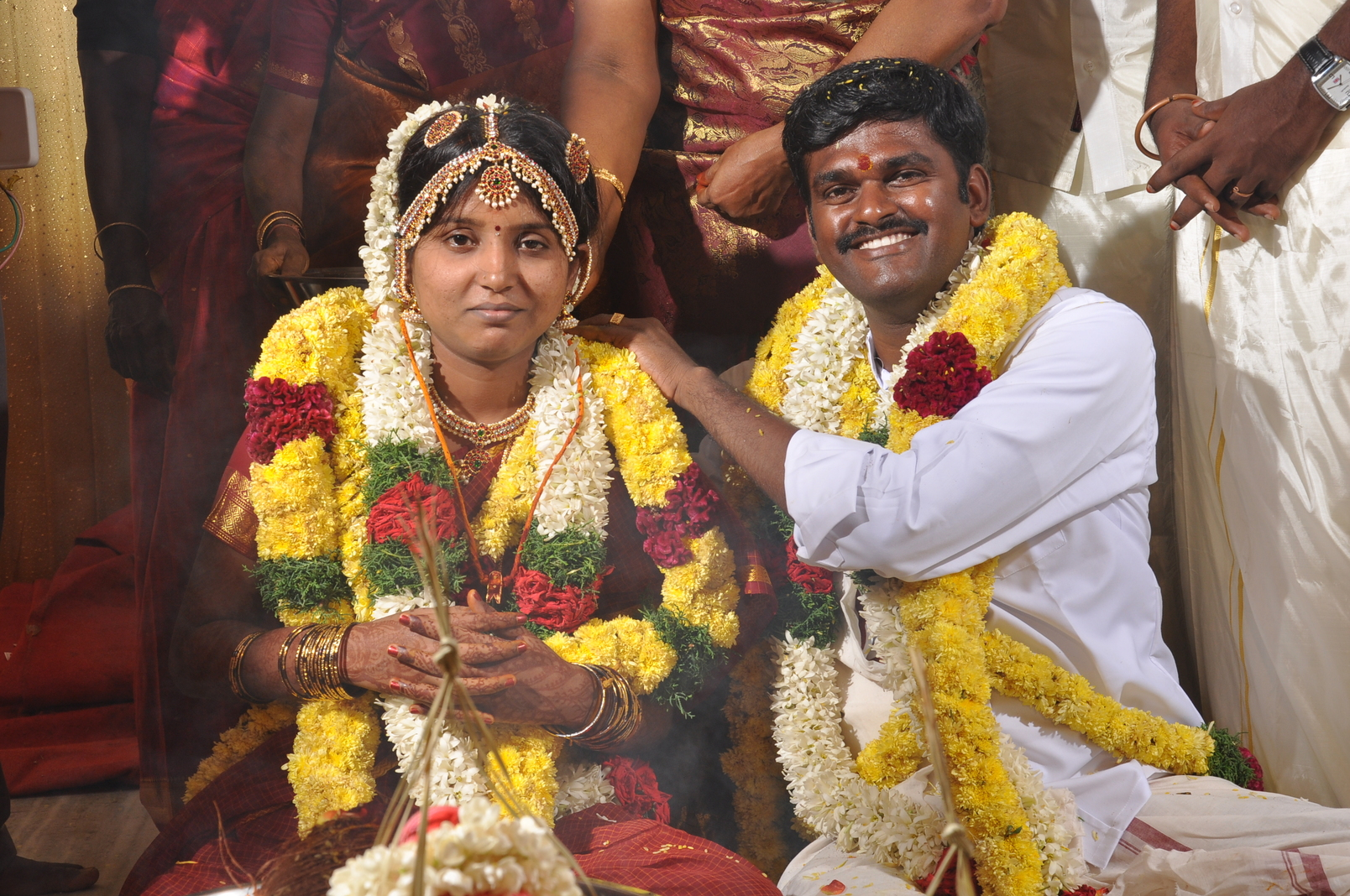 Bridegroom ties the holy string to bride